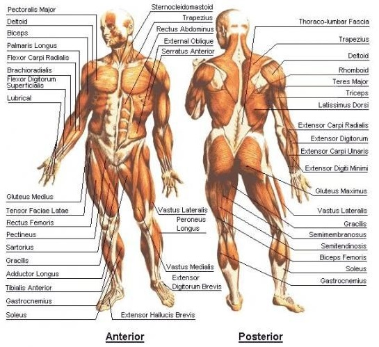 PRP Therapy in the Tampa, FL Area for Joint Injuries, Osteoarthritis & Other Musculoskeletal Conditions PRP TherapyPRP for Tampa patients is available from Florida Spine and Sports Medicine, the area’s leading clinic for regenerative medicine and nonsurgical joint treatments. Founder and Medical Director, Dr. Dennis Lox, specializes in platelet rich plasma therapy as a means of helping joints, muscles, and tendons in the spine, knees, shoulders, and other areas to repair themselves, possibly delaying or eliminating the need for highly invasive surgery. The PRP injection procedure is quick, relatively painless, and can be performed right in Dr. Lox’s clinic. The patient’s own blood is centrifuged in order to isolate the platelets, which contain a high concentration of growth factors Osteoarthritis & Other Musculoskeletal Conditions. The platelet rich plasma is then injected into the degenerated or injured area. The number and frequency of injections will vary based on the individual patient’s needs, but over time this therapy may help decrease inflammation and pain while increasing range of motion and overall mobility.Posterior and Anterior Muscles